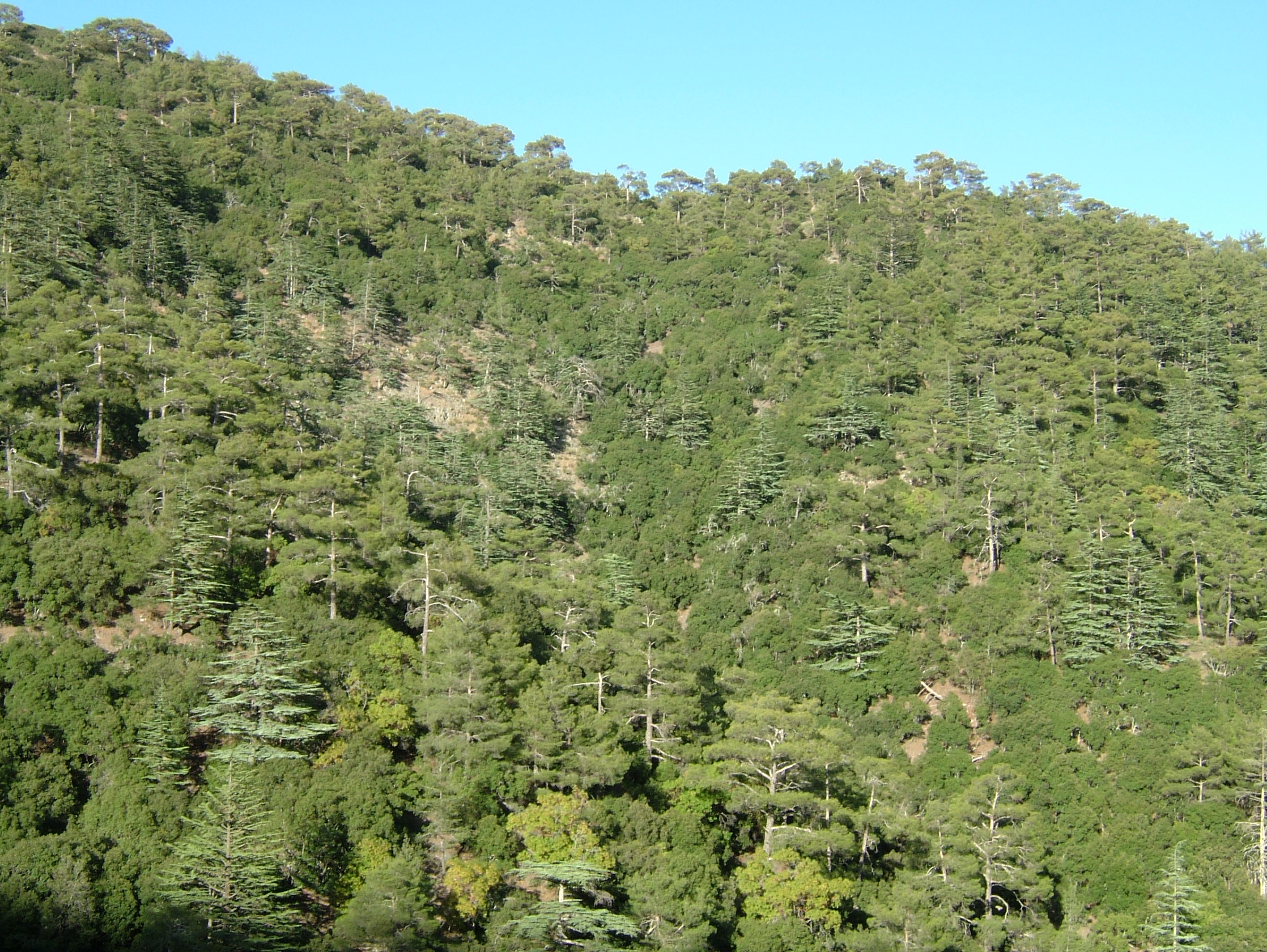 Cyprus Cedar (Cedrus brevifolia - Cedrus libani var. brevifolia) forest. Native to the Troodos Mountains in west-central Cyprus.